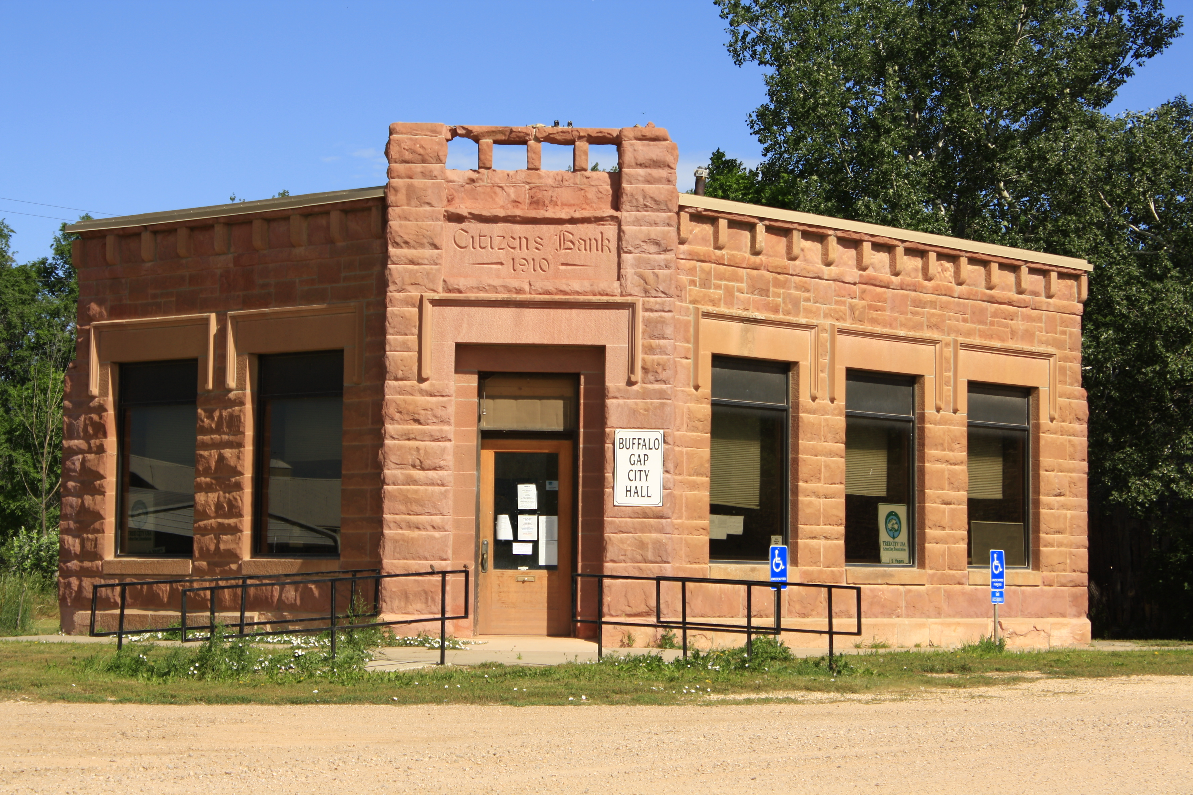 Buffalo Gap Town Hall, originally built as Citizens Bank in 1910. Corner of 2nd & Main